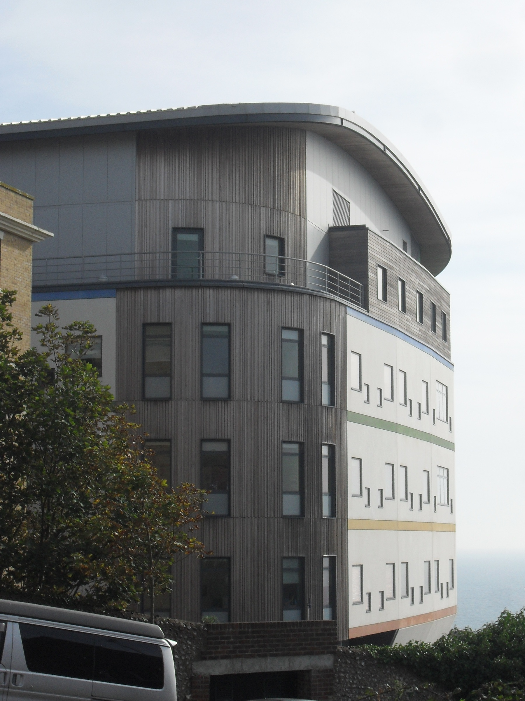 Royal Alexandra Children's Hospital, Eastern Road, Kemptown, City of Brighton and Hove, East Sussex. The award-winning new hospital building opened in 2007 on the Royal Sussex County Hospital campus. Building Design Partnership and Kajima were the designers and building contractors respectively. This view is from the northwest, taken from Upper Abbey Road.